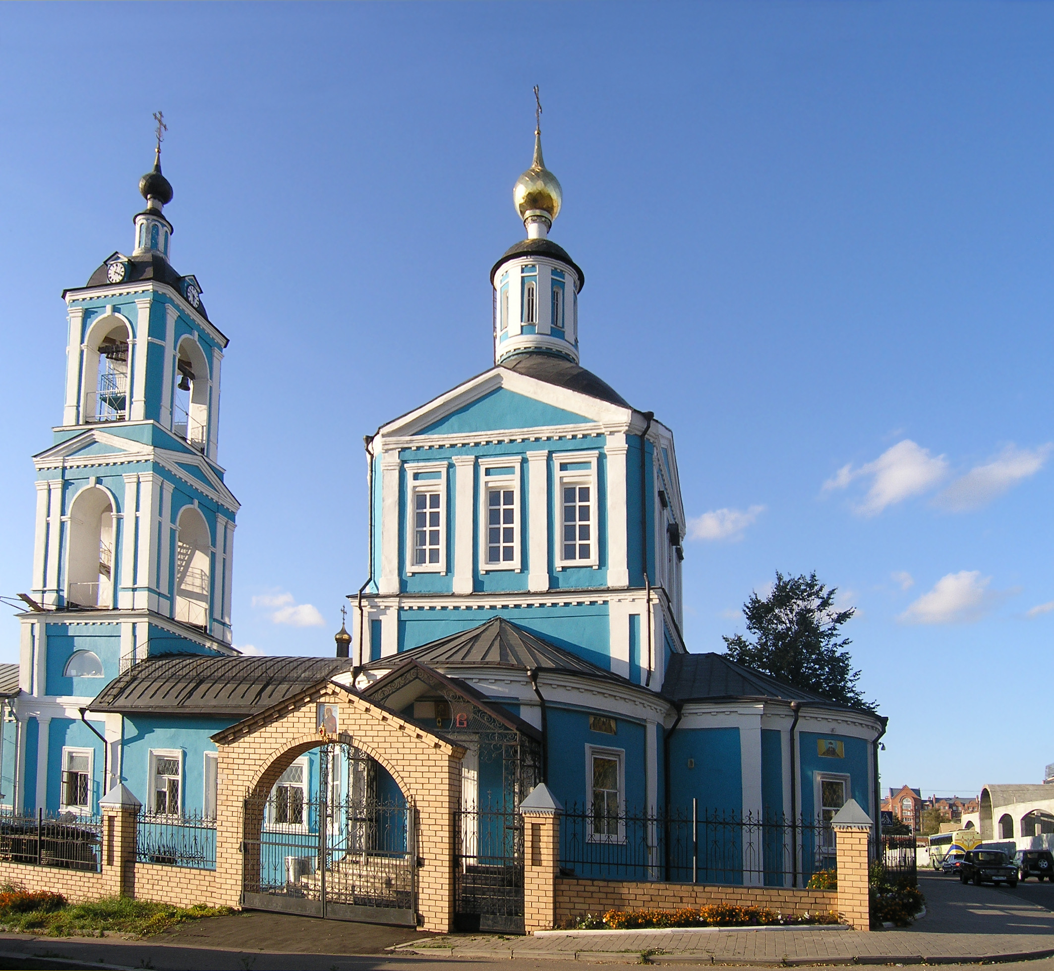 Church of Saints Apostles Peter and Paul, Sergiev Posad, Russia.